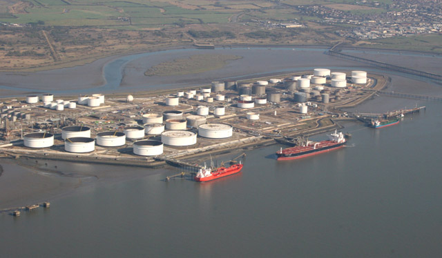 Coryton Oil Refinery These jetties and tanks are part of Coryton Oil Refinery. The picture also shows TQ7582 and TQ7682.